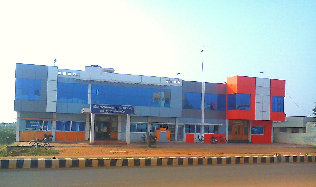 Sivagangai Muncipality Office New Building